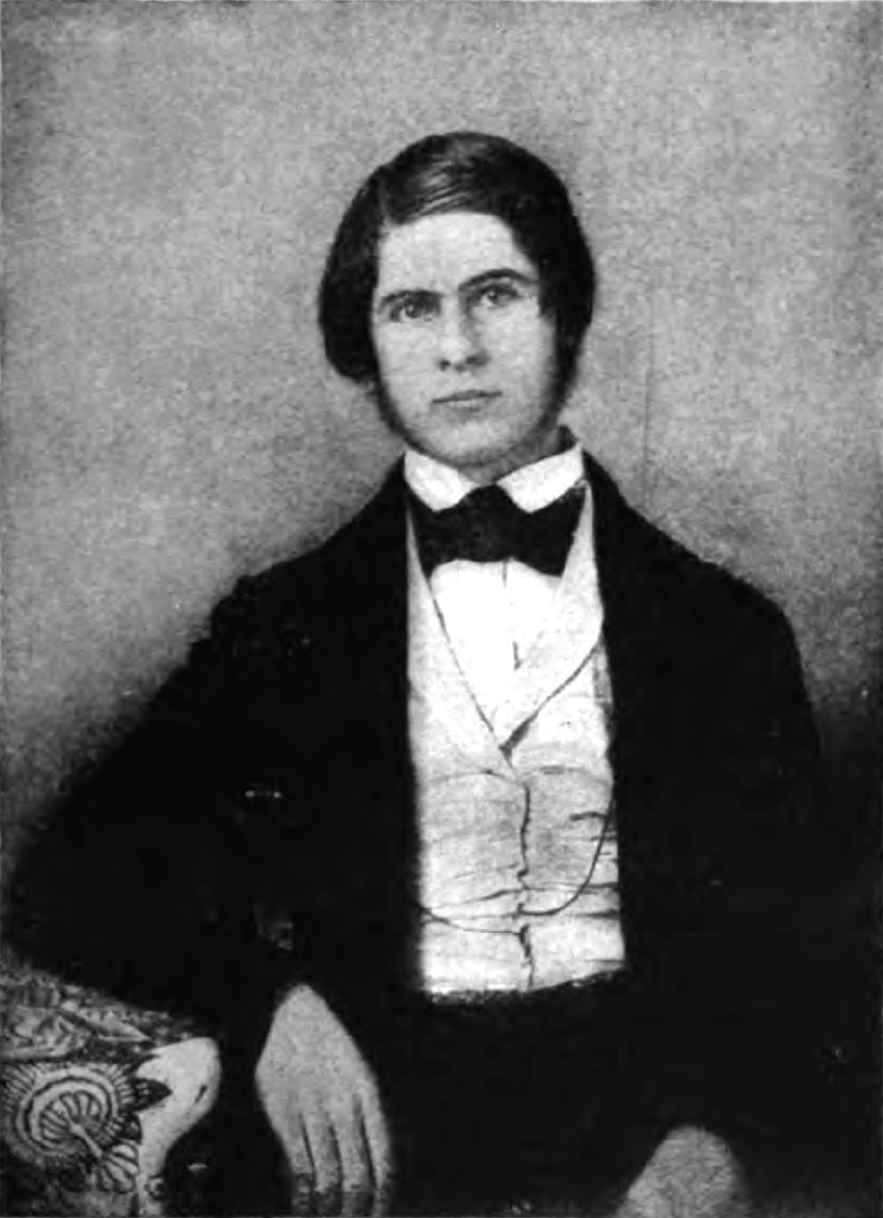 Engraving of Jay Cooke from the 1839-1840 period